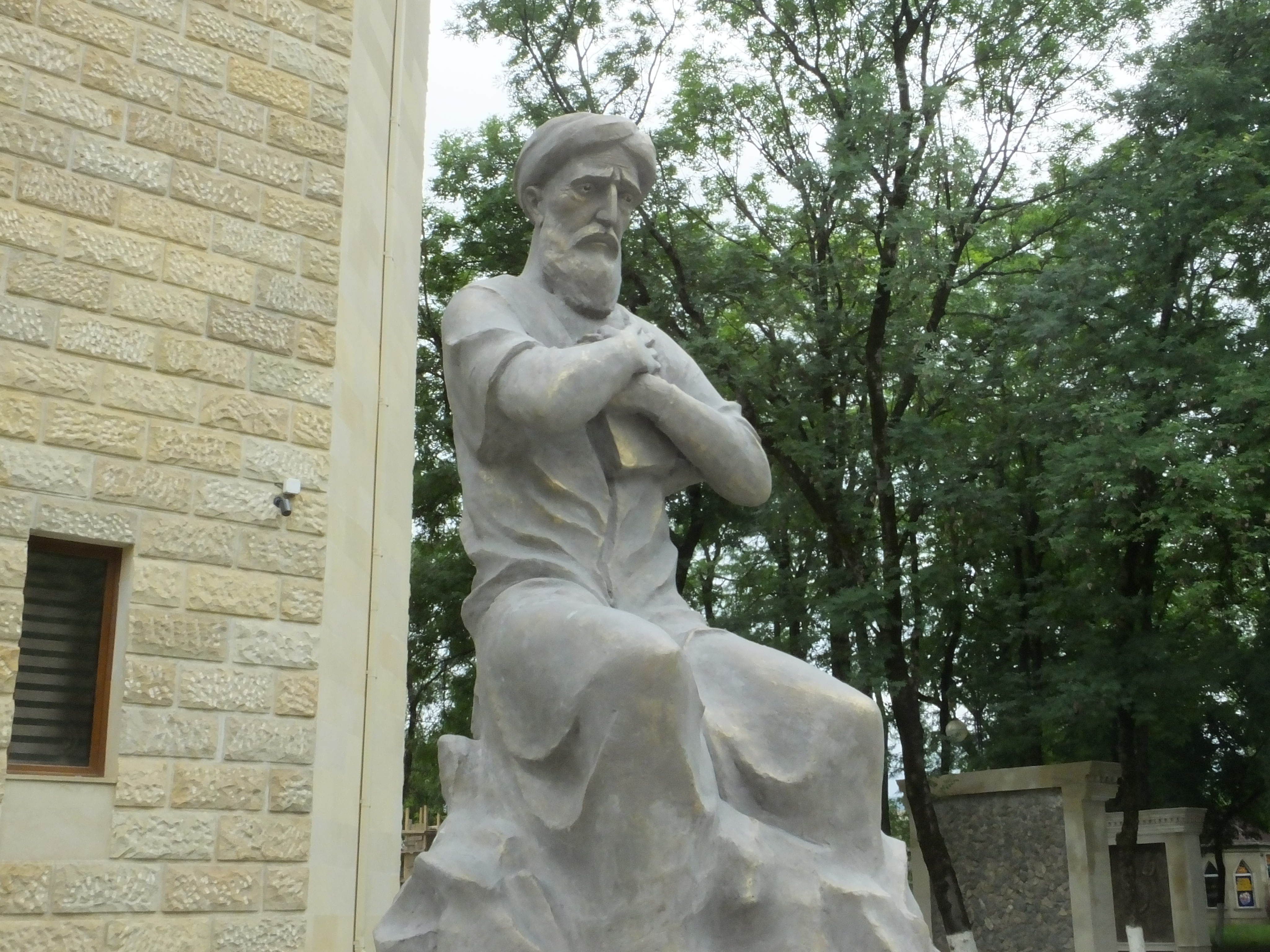 A picture of Fuzuli's statue in Guba, taken by Aykhan Zayedzadeh for 2018 Spring WikiCamp Azerbaijan